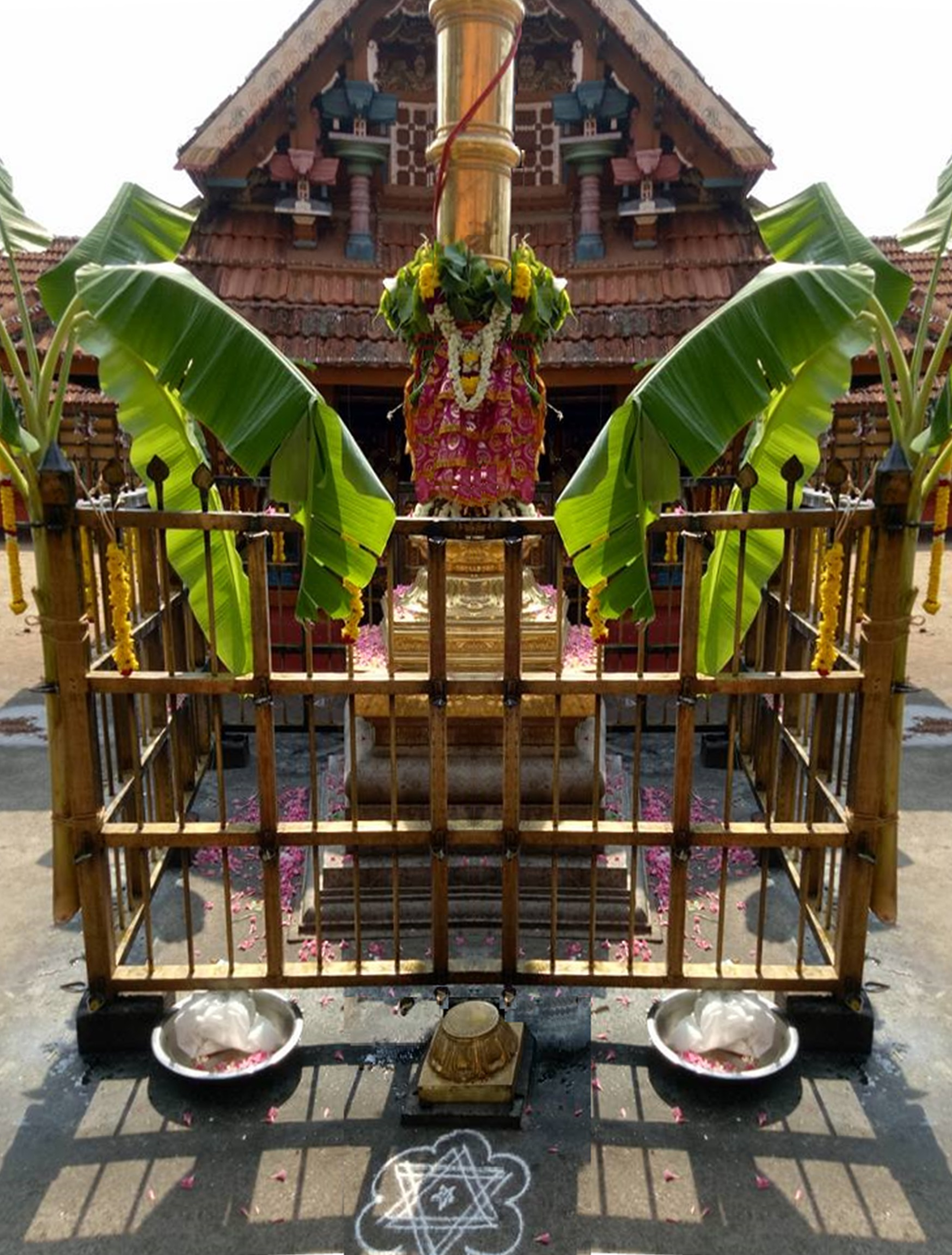 Anandavalleeshwaram Sri Mahadevar Temple Utsav day